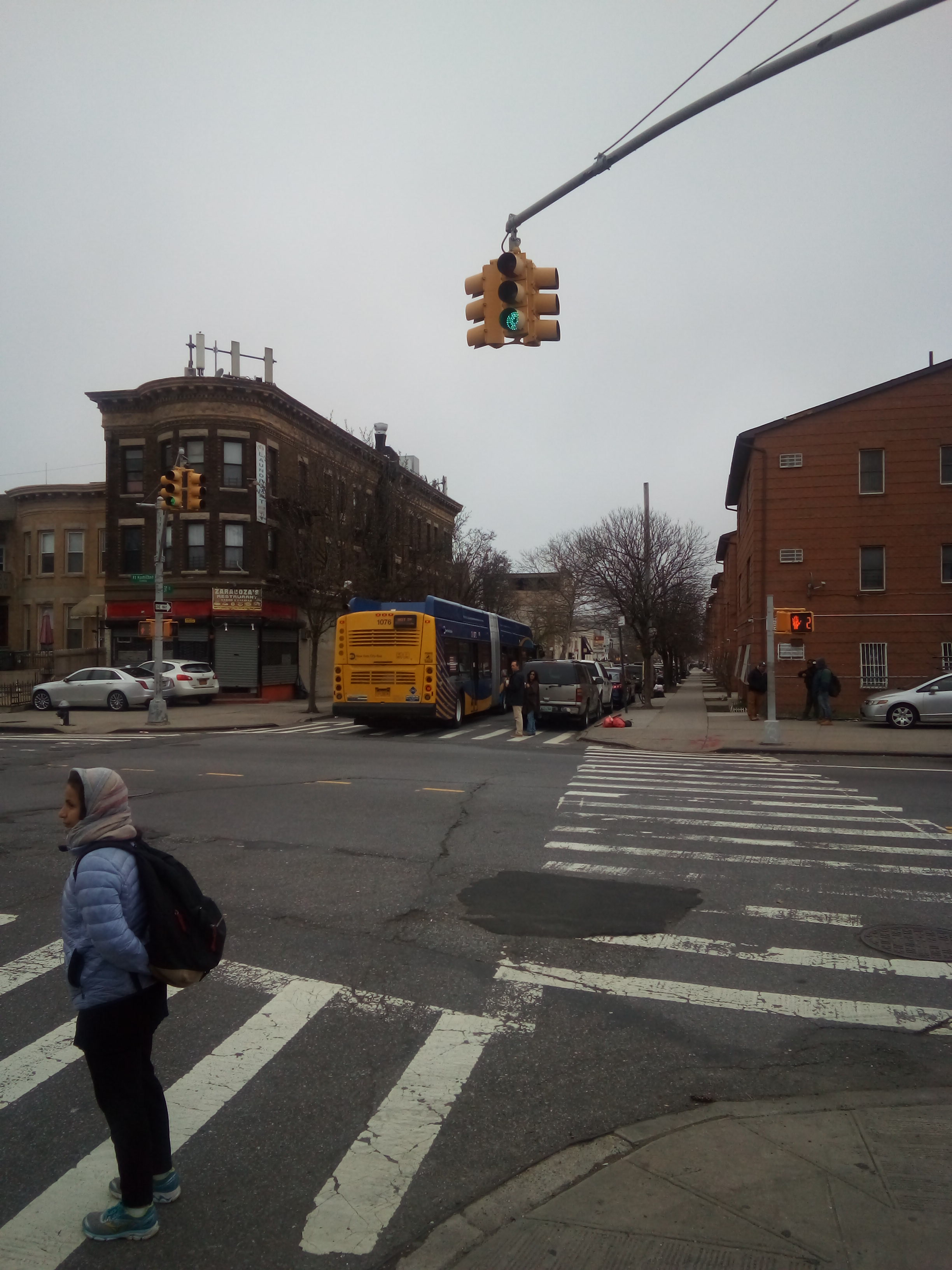 Looking southeast from the southwest corner of the intersection with Fort Hamilton Parkway and 37th Street in the Sunset Park section of Brooklyn, New York City. The intersection is the former site of the Fort Hamilton Parkway (BMT Culver Line) station, which existed from 1919 to 1975. An articulated bus can also be seen traveling down 37th Street, but it's not in service.